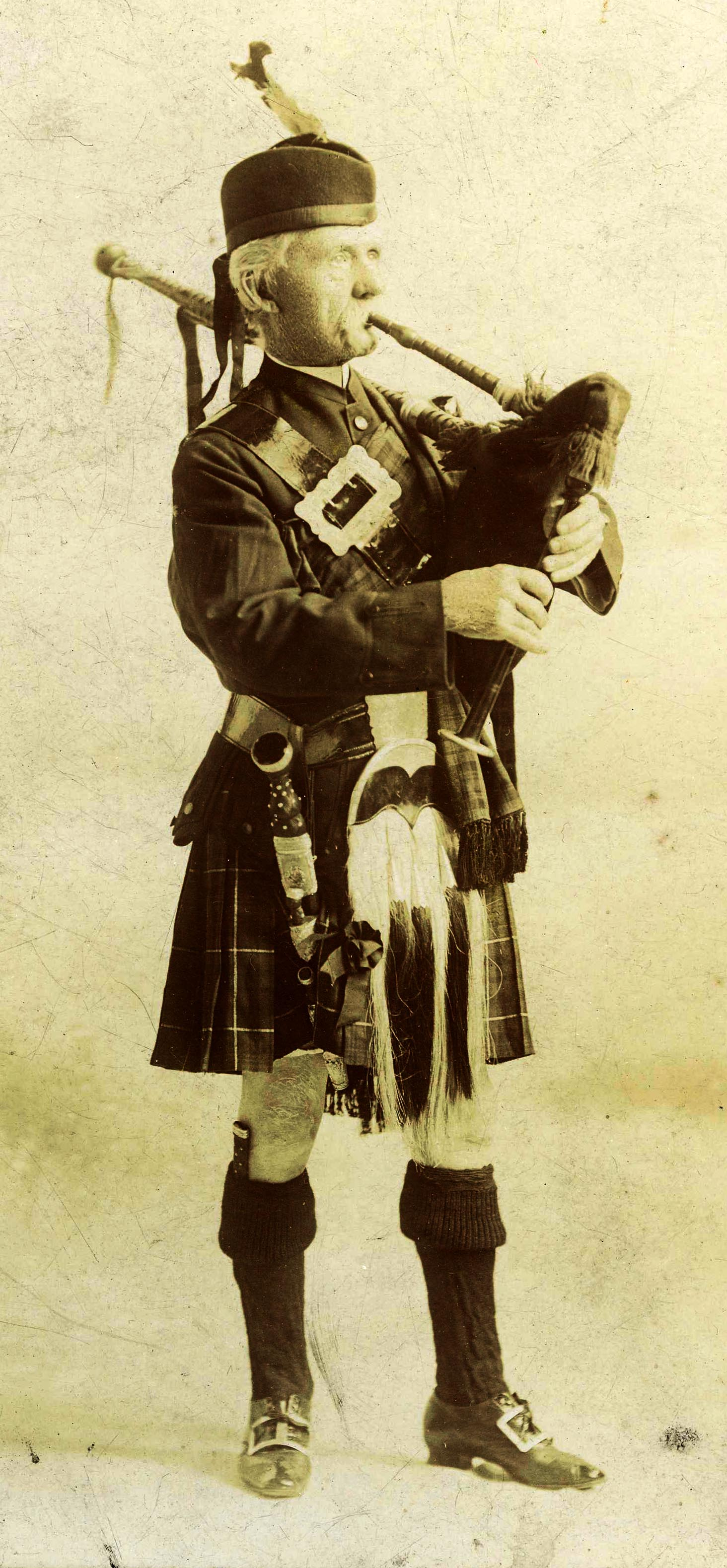 Cropped from a family photo given by Dunbar's daughter Abigail Dunbar to her granddaughter Ruth Morris Blakely